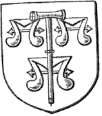 Arms of the monastery of Kyrkham.